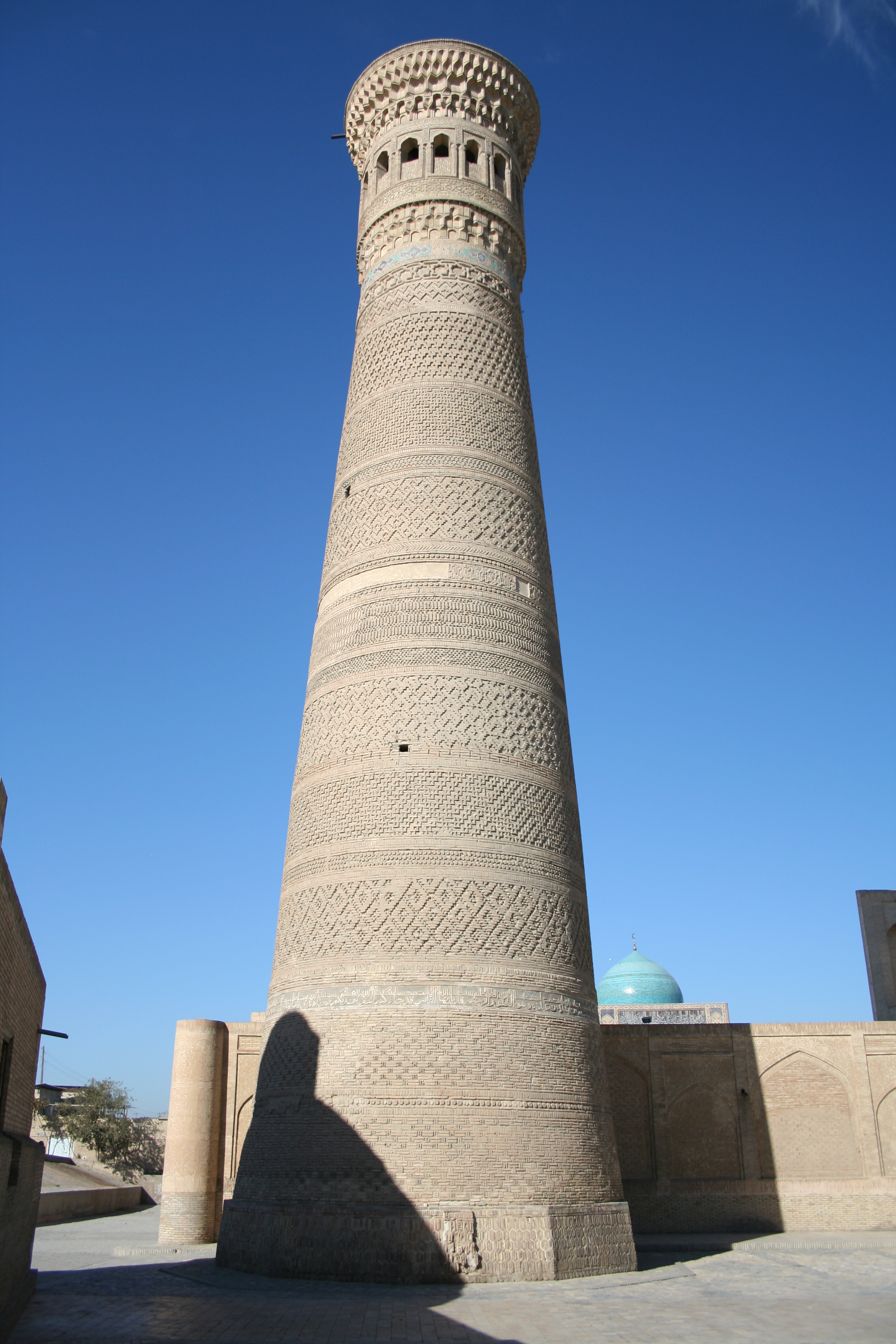 Bukhara, Kalyan minaret